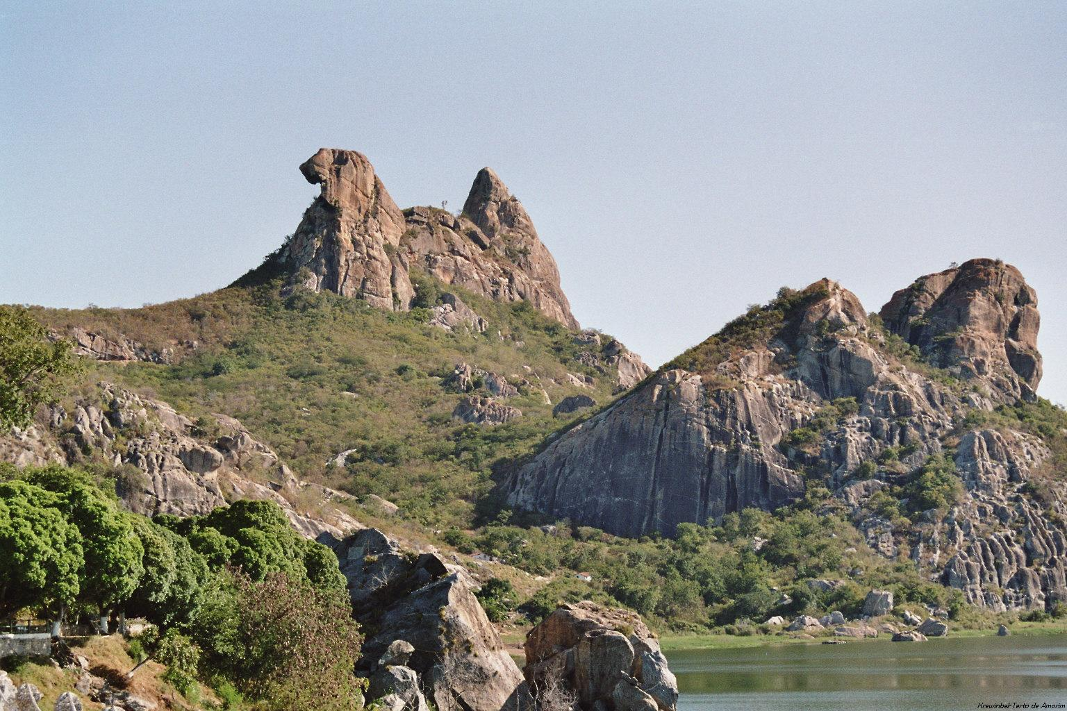 Pedra da Galinha Choca - The chicken's rock